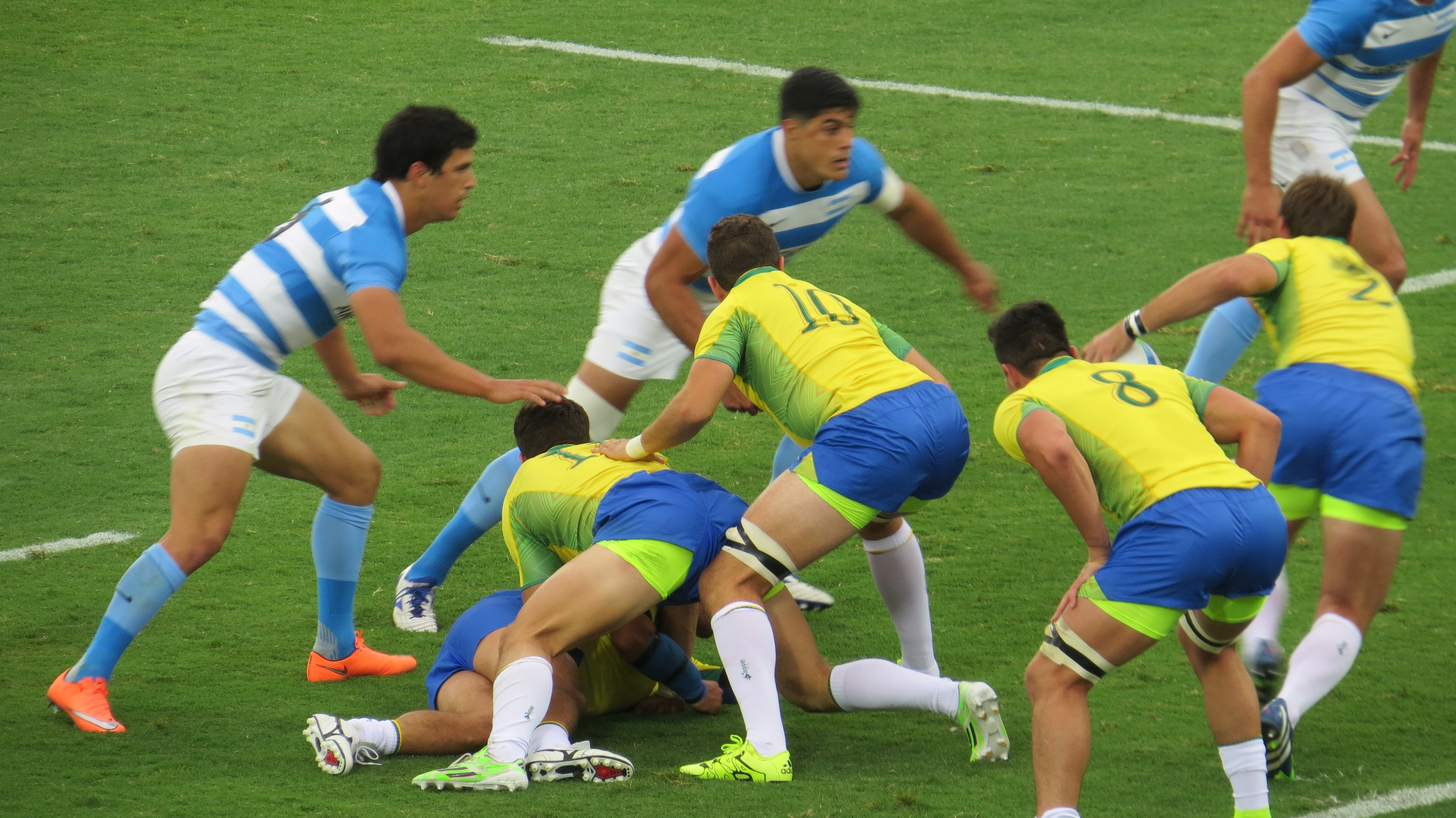 Rio 2016. Rugby 205